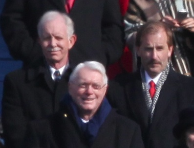 Chesley Sullenberger (left) and Jeffrey B. Skiles (right), the pilot and co-pilot respectively who successfully ditched US Airways Flight 1549 into the Hudson River with no lives lost, attending the inauguration of President Barack Obama five days later, on Obama's invitation. The man in front is Kentucky senator (and baseball Hall-of-Famer) Jim Bunning.